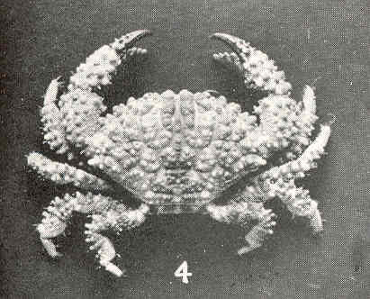 Actaea nodulosa, male, station 4062 (now Epiactaea margaritifera) Subject: Crabs, Actaea Tag: Shellfish